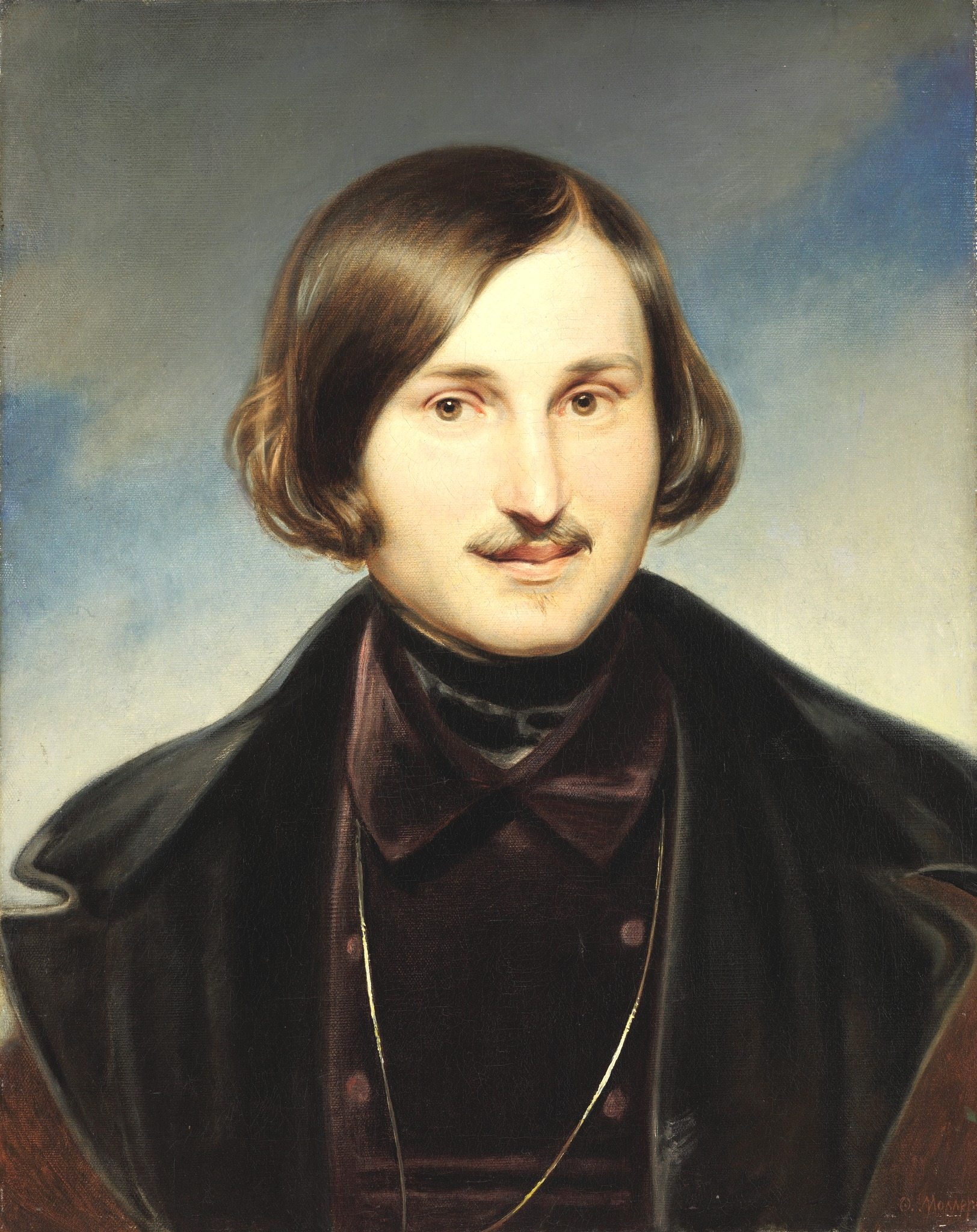 The portrait exhibited in Tretyakov Gallery is author’s replica of the original portrait painted for the mother of Nikolai Gogol in 1841 in Rome.The original portrait was kept in Vasilievka, Gogol’s estate, then it was at the house of A.V. Gogol, the sister of the writer. In 1919 S.N. Bykova, the grand-nephew of N. Gogol, transferred the original portrait to the collection of Poltava Museum of Local History, where the portrait was housed till 1941. It was lost during the German occupation of Ukraine.